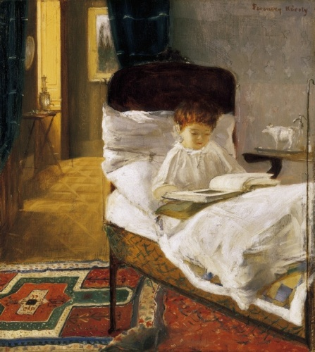 A beautifull book